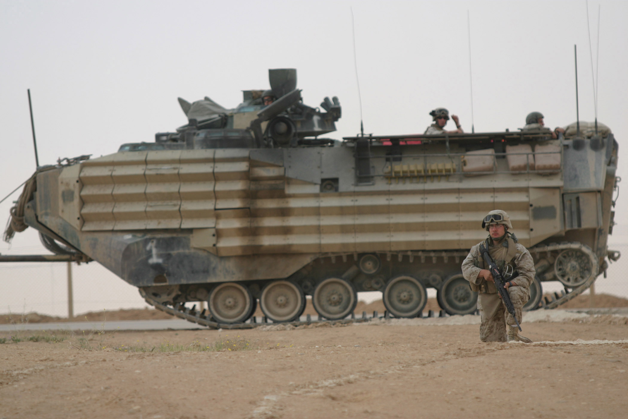 CAMP RIPPER, AL ASAD, Iraq -- Lance Cpl. Matthew Snyder, a 20-year-old Tampa, Fla. native and rifleman with Beowulf, takes up a security position near an Amphibious Armored Vehicle for a cordon and knock mission, April 15. The 2003 Bloomingdale High School graduate is attached to Beowulf, the regimental reserve force for Regimental Combat Team 2, responsible for a myriad of tasks from security and sustainment operations to setting up snap vehicle control points. U.S. Marine Corps photo by Sgt. Stephen D'Alessio (RELEASED)